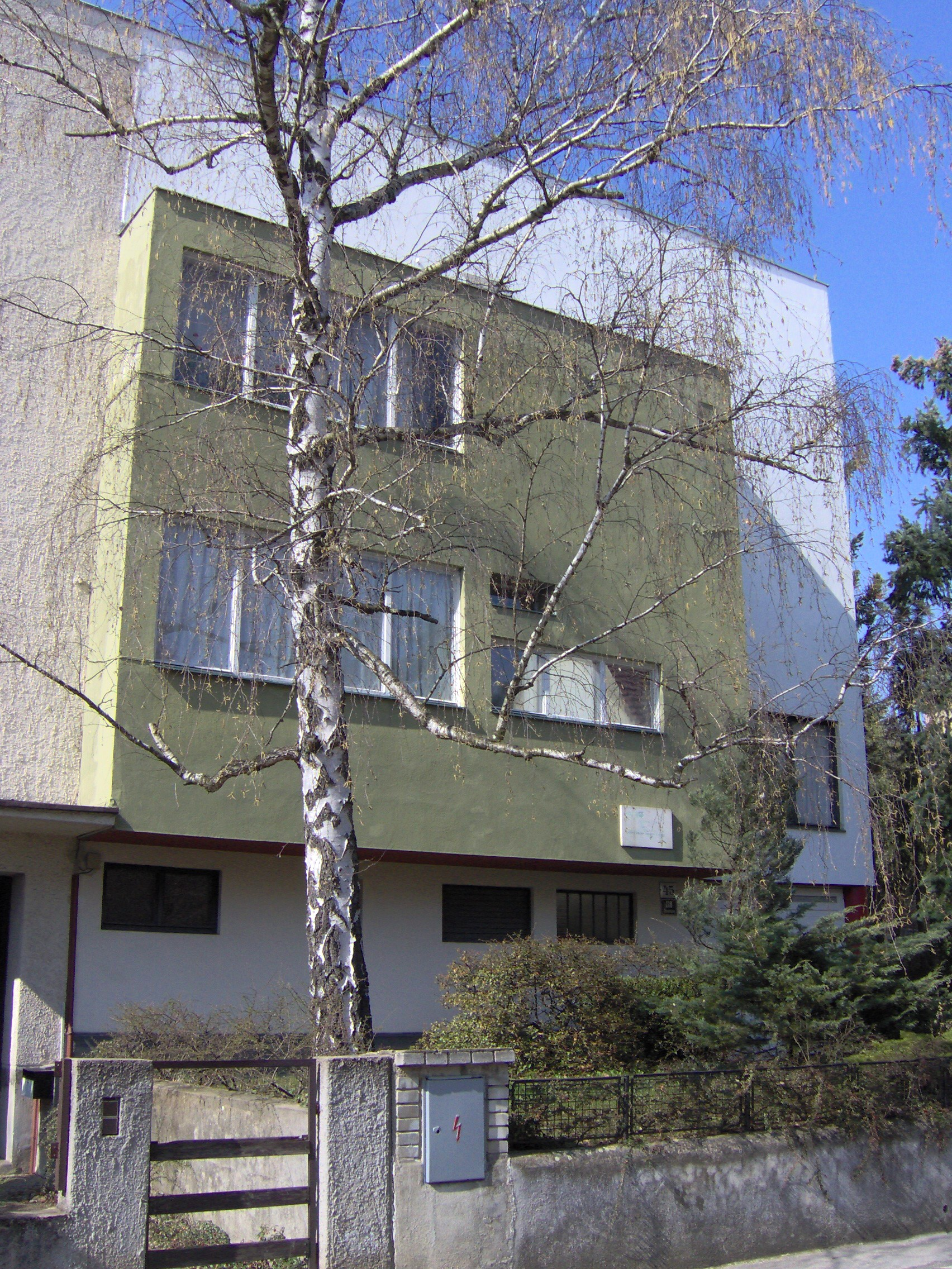 Own villa by Jiří Kroha, Brno, Czech Republic